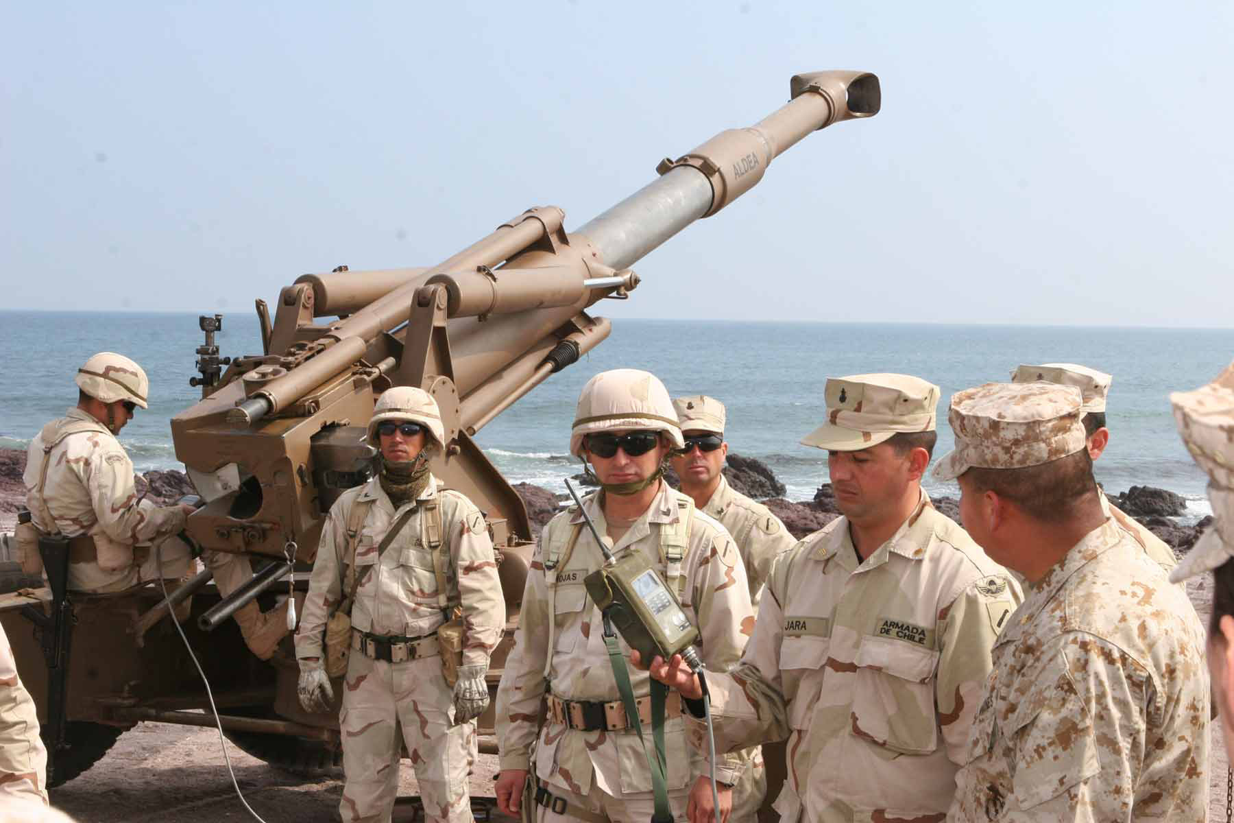 Chilean Marines of Destacamento Lynch present a display and demonstration of their coastal artillery battery to Marines of SPMAGTF 24 during a day of professional military education and exchanges here. Special Purpose Marine Air-Ground Task Force 24 is currently in Chile supporting Partnership of the Americas 2007, an annual exercise that enhances regional cooperation and security among nations of the Western Hemisphere.